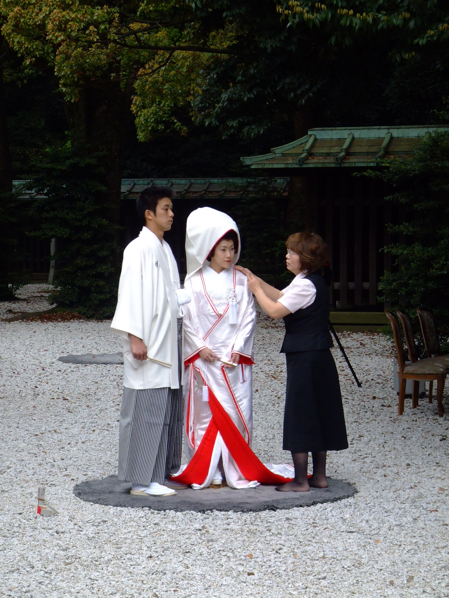 Tradition shinto wedding at the Meiji shrine